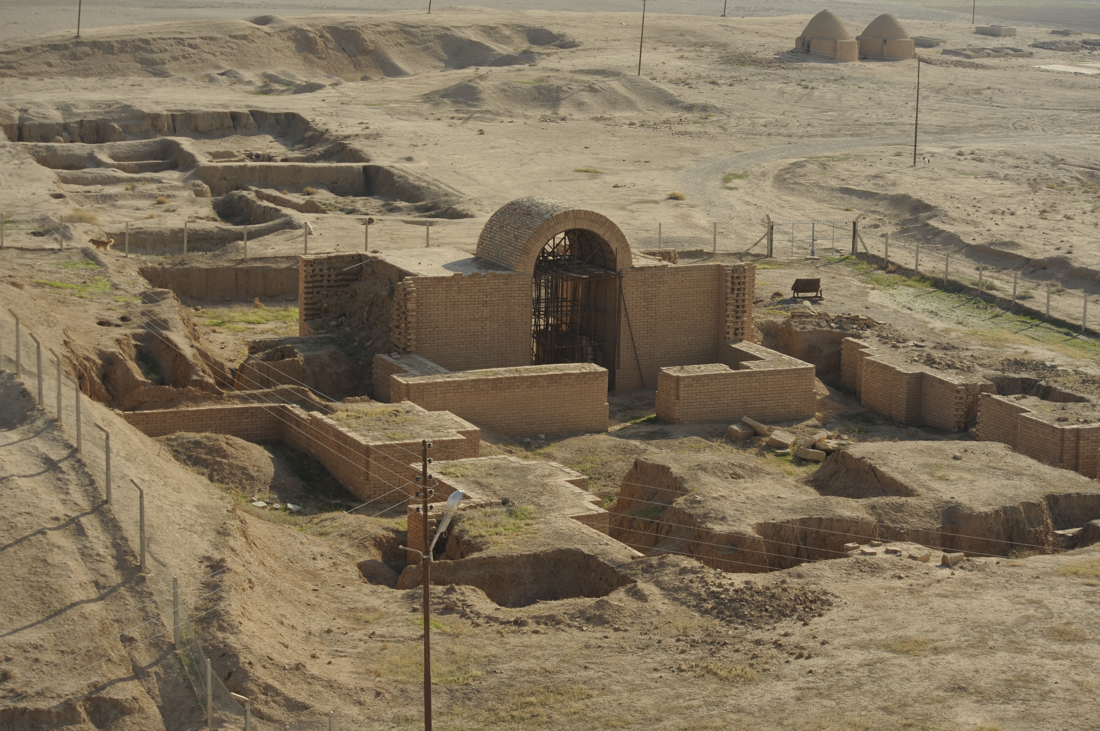 An excavation site in the ancient city of Calah, which is now known as Nimrud, Iraq, Nov. 19. Nimrud is in consideration by United Nations Educational, Scientific, and Cultural Organization to become a protected World Heritage site. UNESCO works to create the conditions for genuine dialogue based upon respect for shared values and the dignity of each civilization and culture.